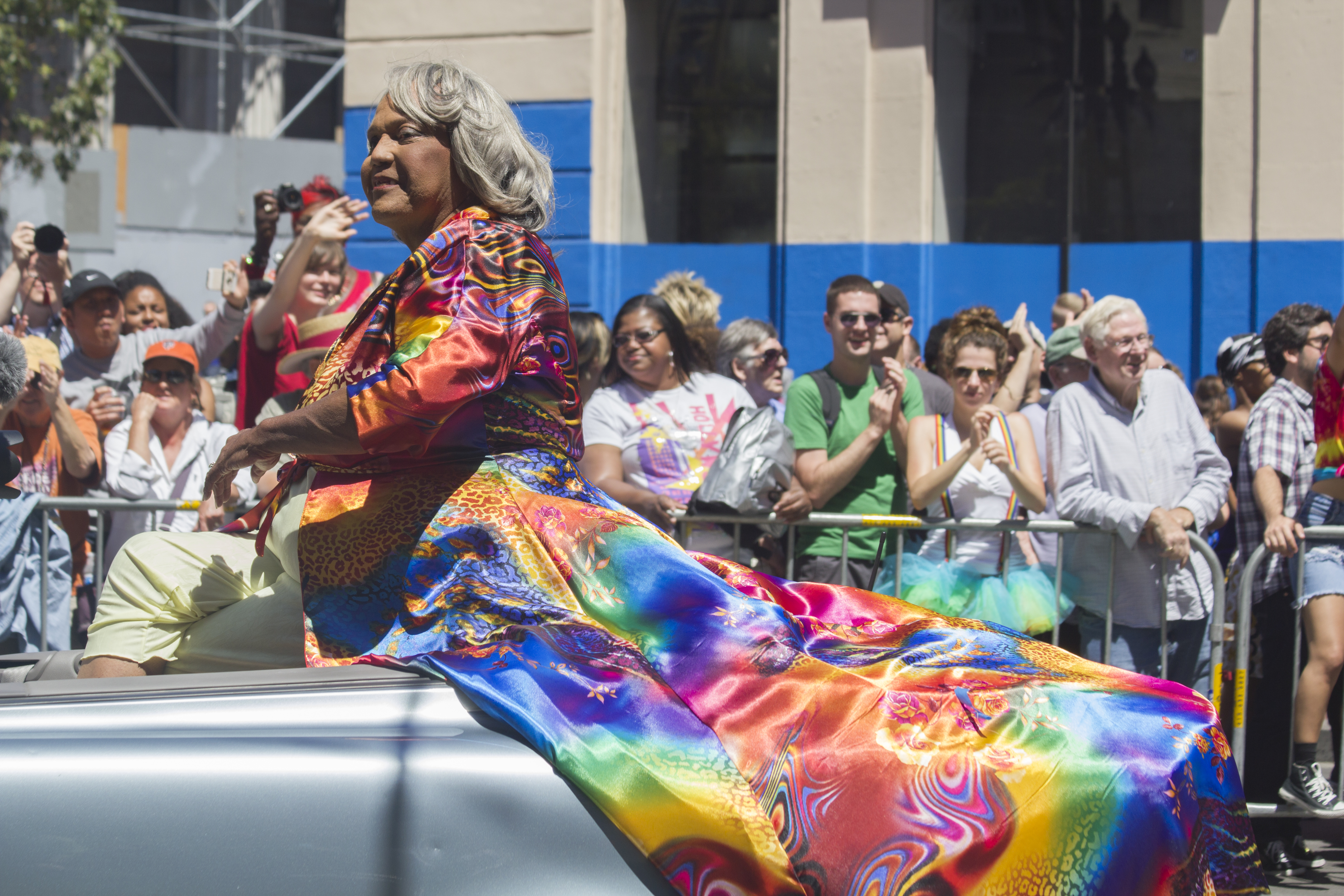 Miss Major Griffin-Gracy during the Pride 2014 parade in San Francisco, California.